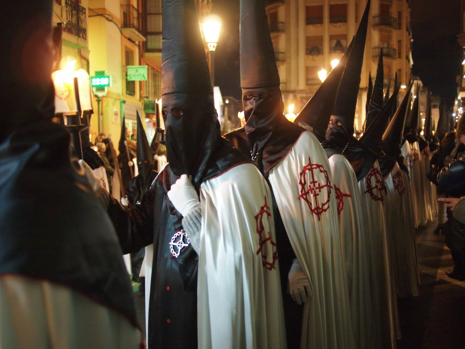 Procession of the religious brotherhood Hermandad de Jesús en su Tercera Caída, Zamora (Spain), Holy Week 2013